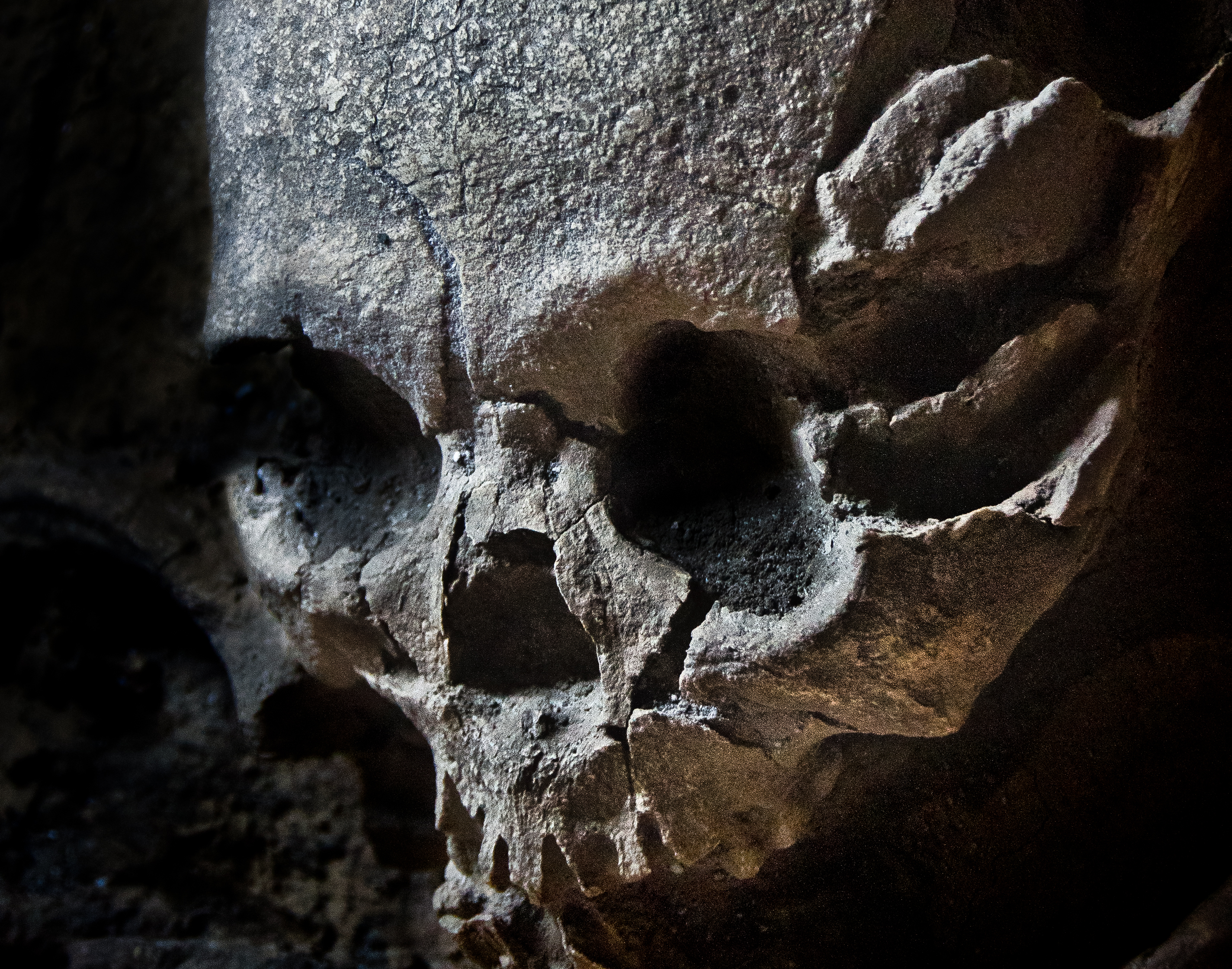 Closeup of a skull that's part of remains on display at the Xi'an Banpo Museum.